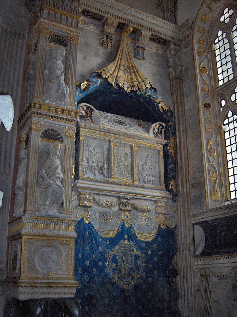 The grave of Sigismondo Pandolfo Malatesta (by Francesco di Simone Ferrucci) at the Tempio malatestiano in Rimini (1465).